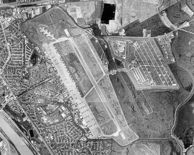 Aerial photo mosaic of Barksdale AFB in Bossier City, Louisiana, United States.